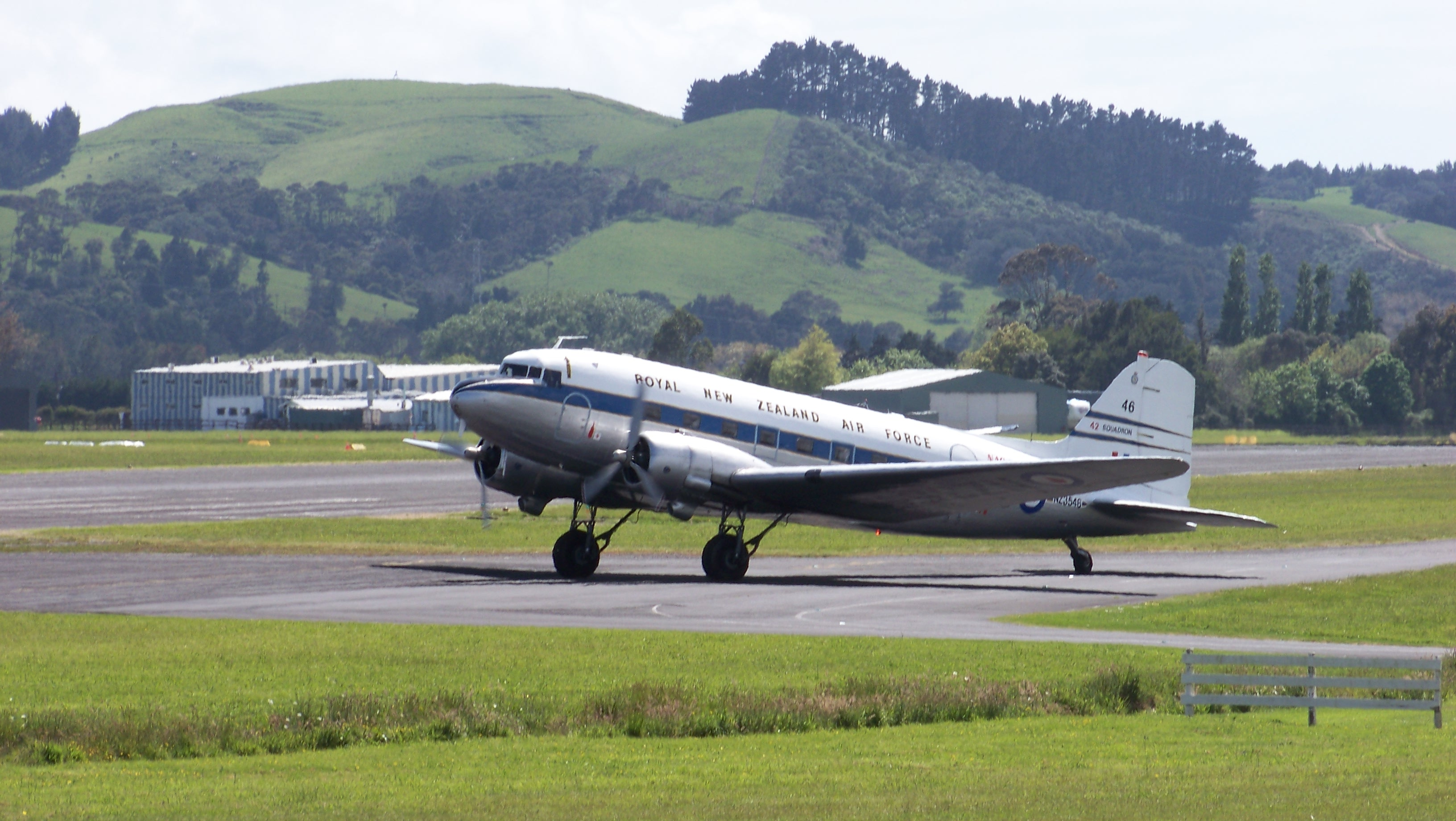 A Restored DC-3 approaches runway 3R, Ardmore Airport, New Zealand.